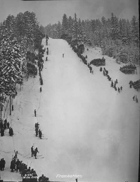 Odnesbakken ski jumping hill in Odnes, Norway